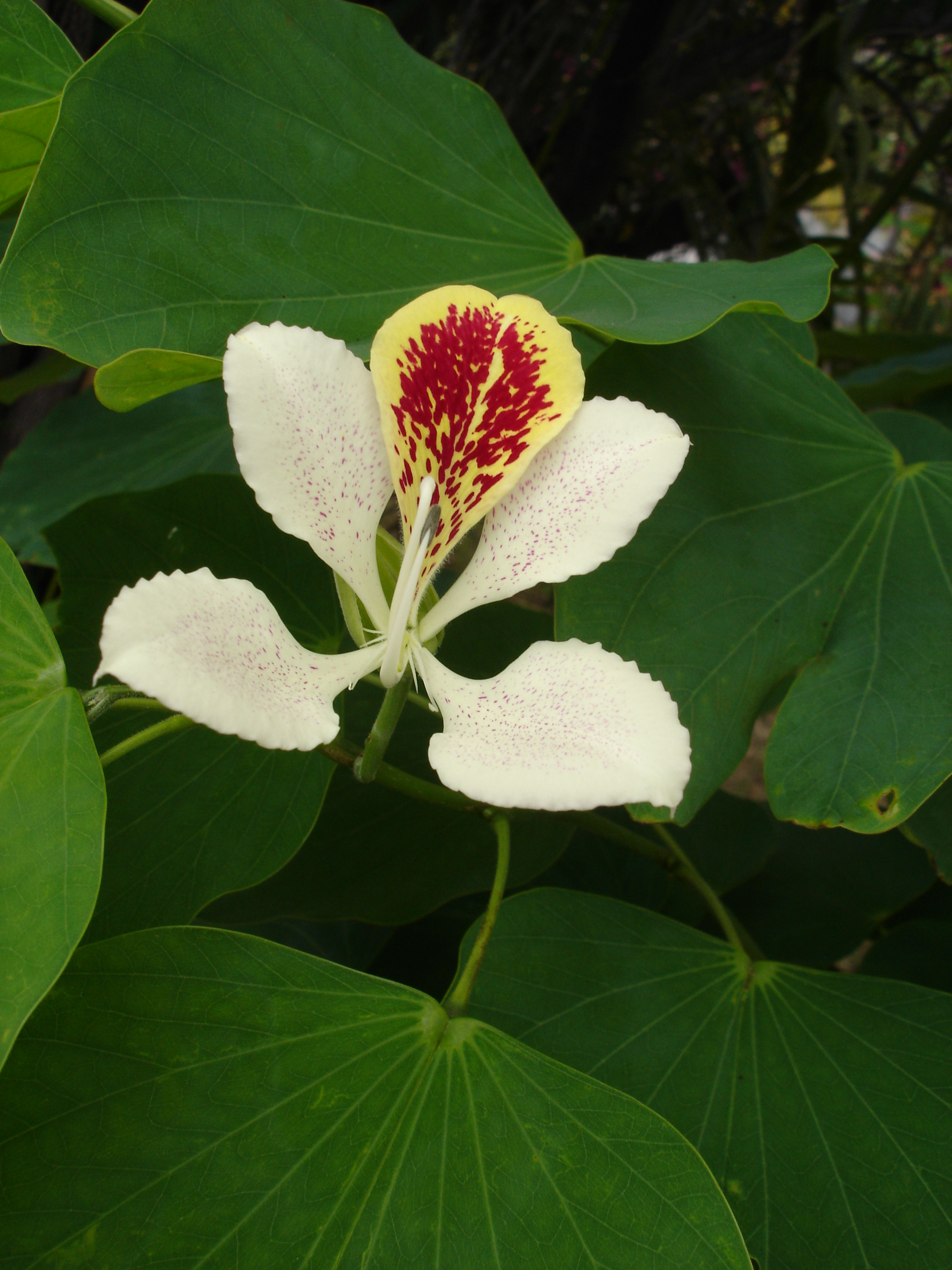 Description: Bauhinia monandra, november 2004, La Réunion Source:Bouba